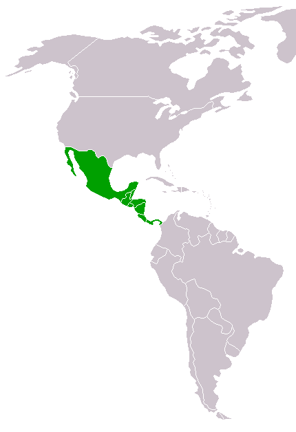 Central America after UN Statistics Division